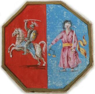 Coat of Arms of Liudvinavas city in 1791